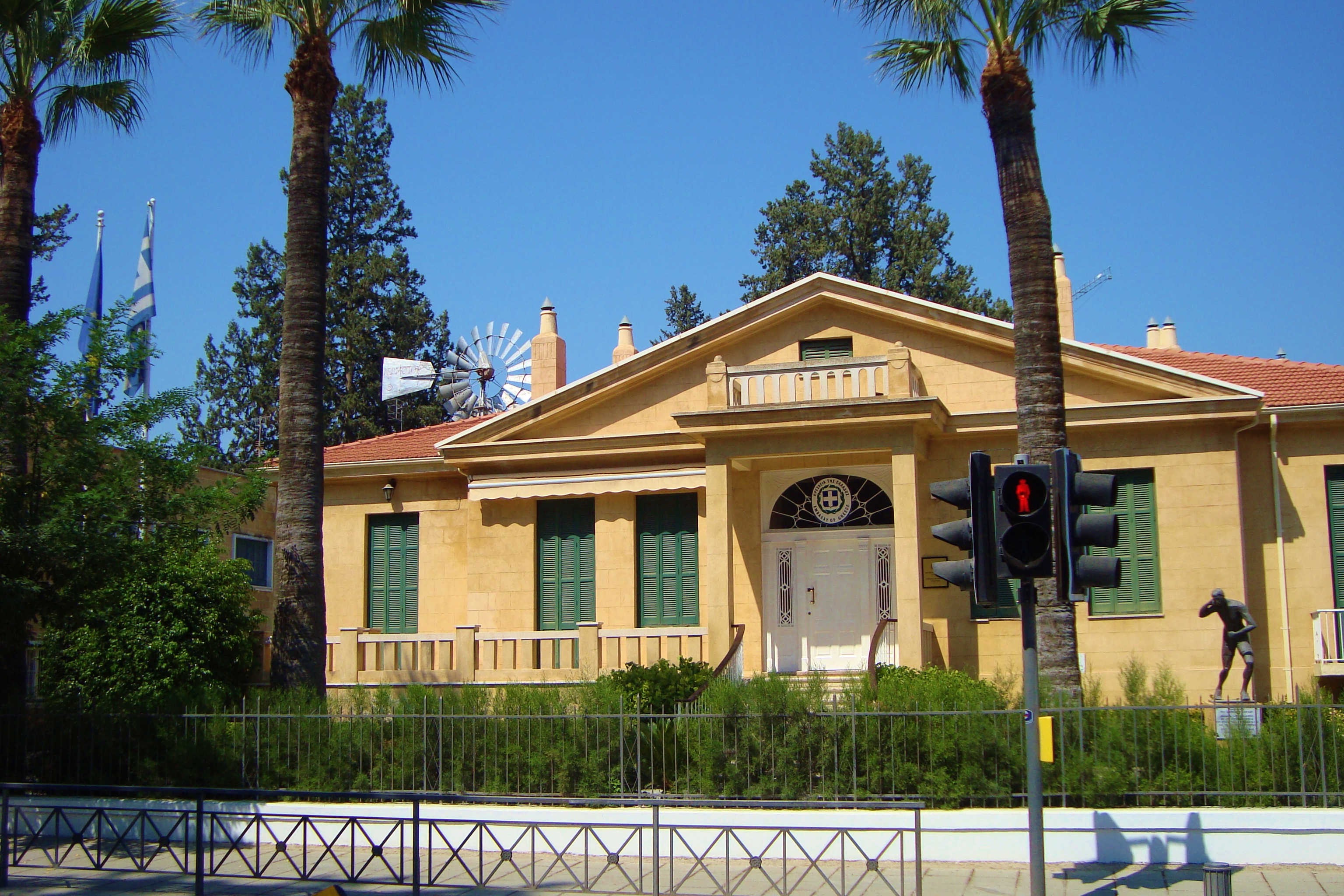 Embassy of Greece in central Nicosia Republic of Cyprus